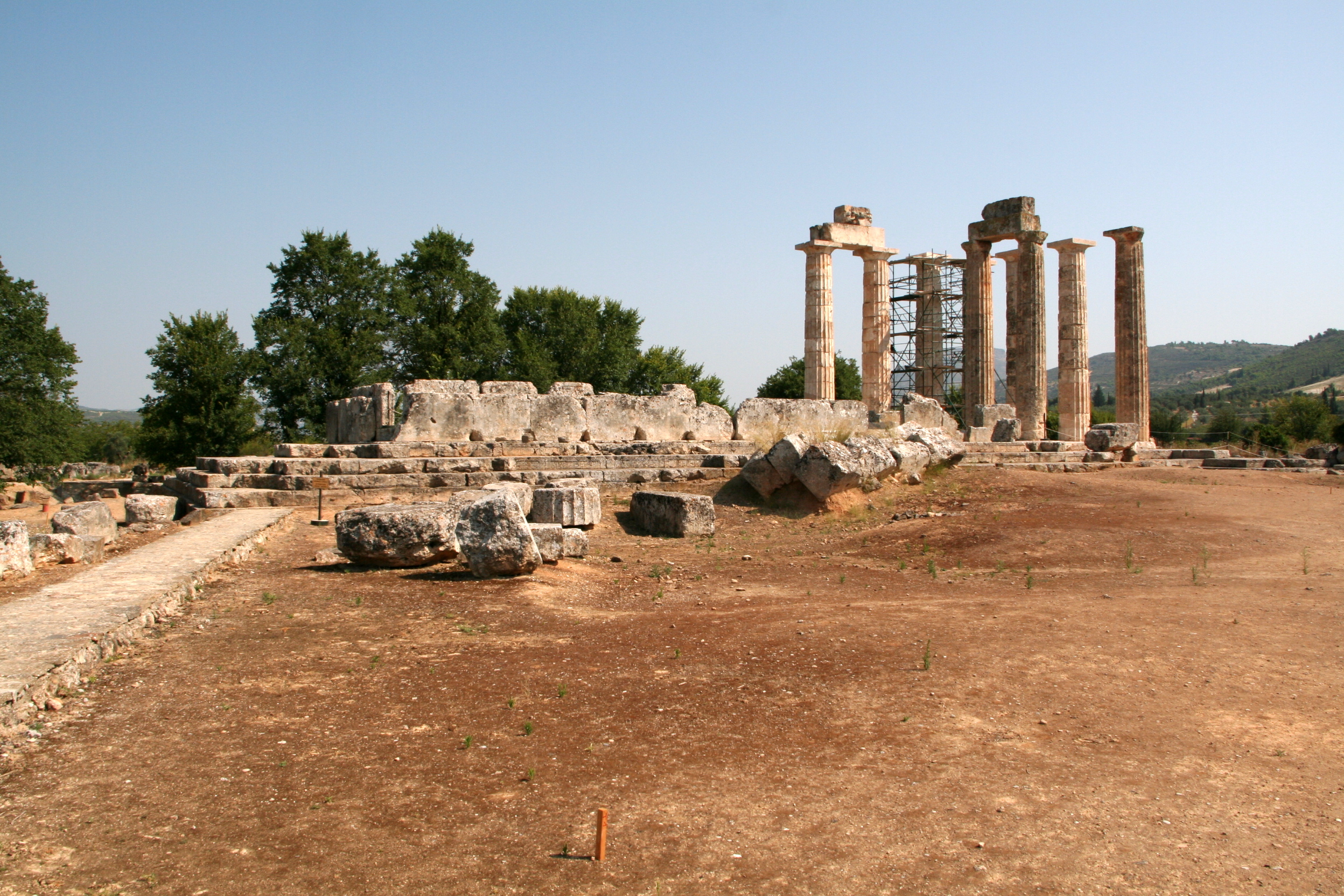 Temple of Zeus, Nemea 330 - 320 BC